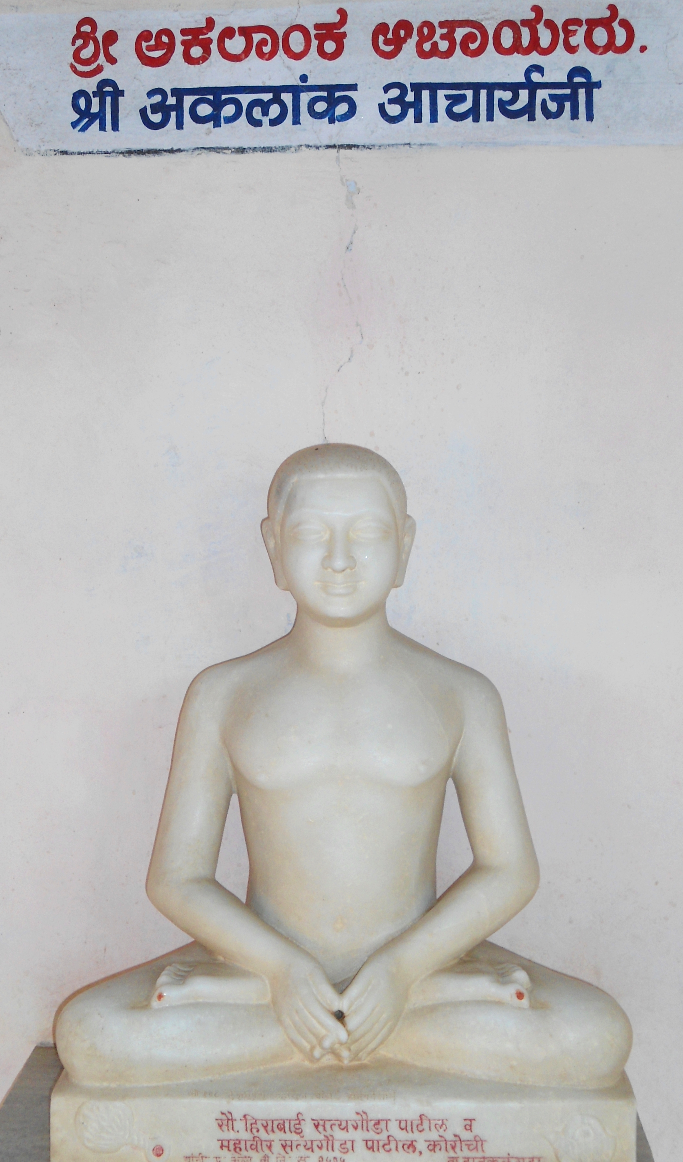 Image of Akalanka swami (great Jain muni and logician)